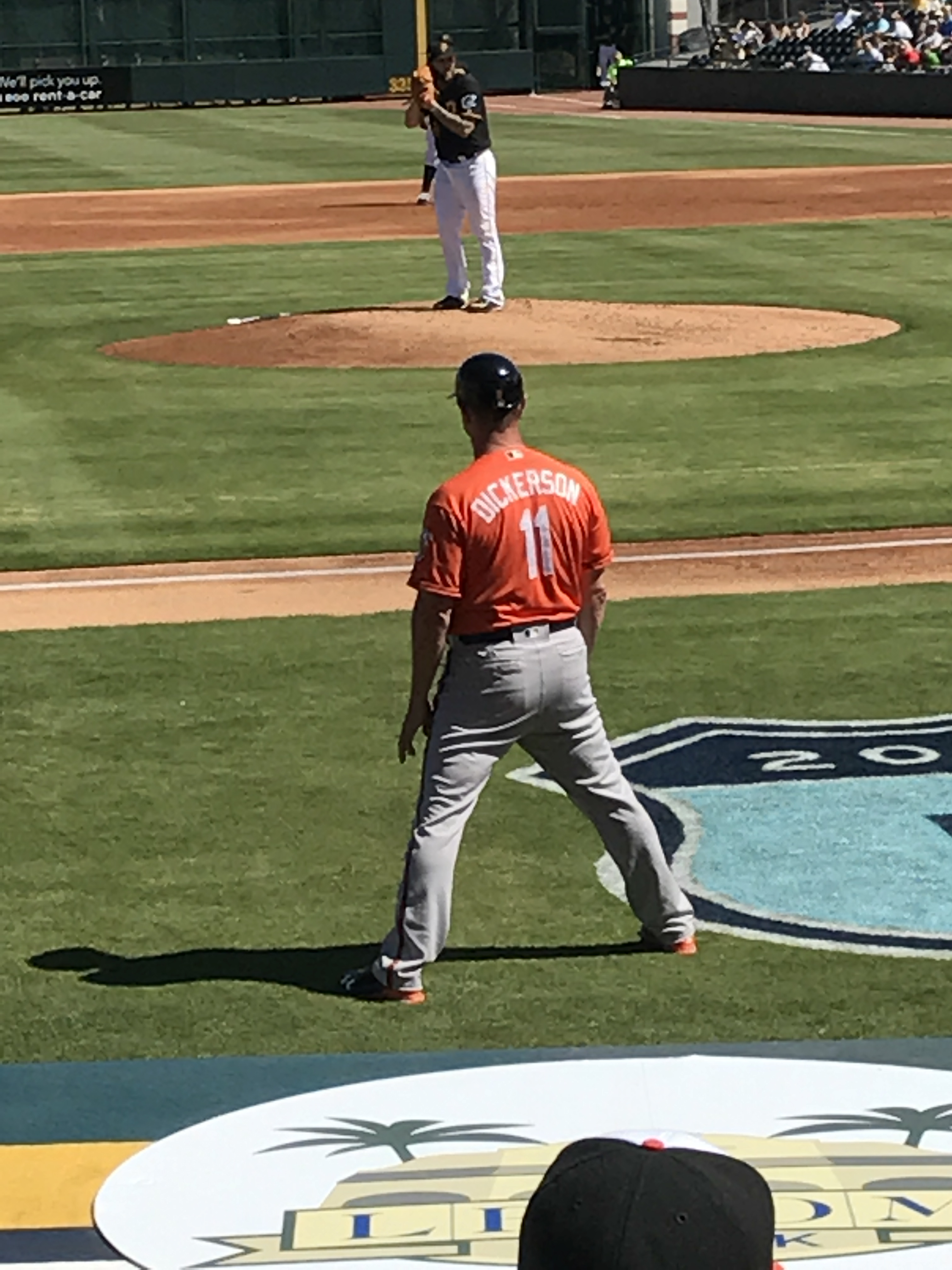 Bobby Dickerson at 2017 Spring Training